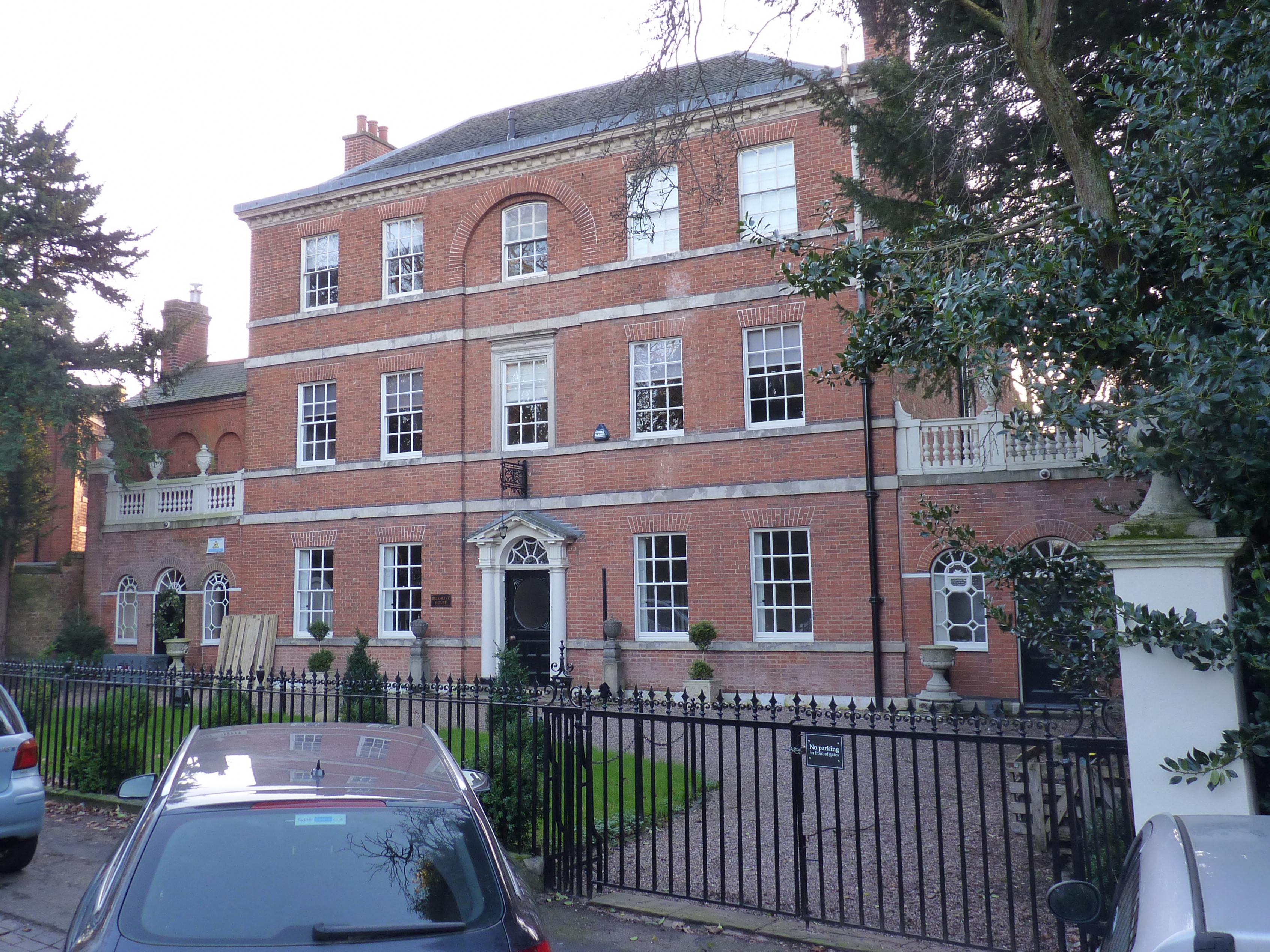 Belgrave House is a Grade II* listed building built by William Vann in 1776 in a 'sleek, classical style', on the other side of the road from Belgrave Hall, occupied at the time by his brothers.